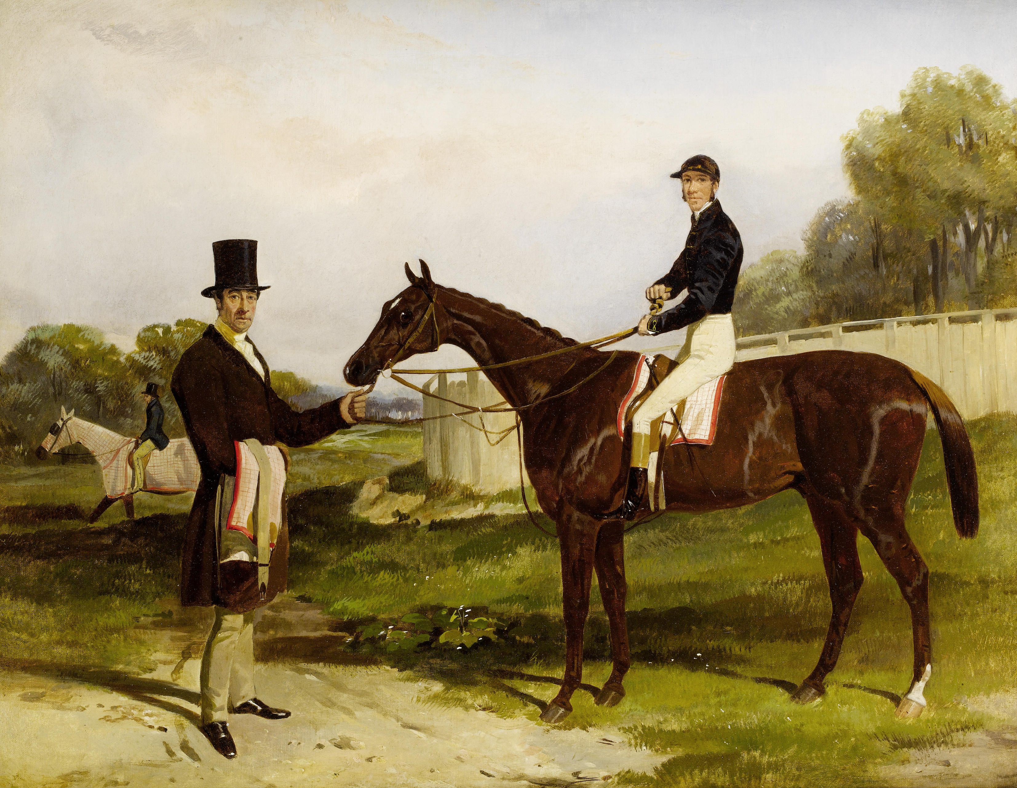 19th century british impressionist art.